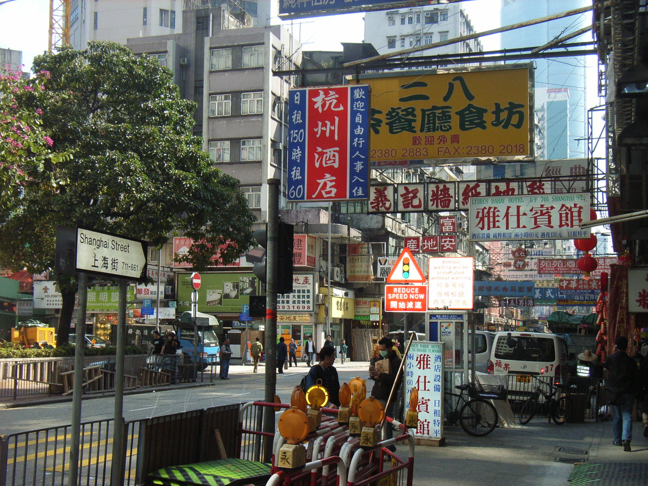 上海街（Shanghai Street）是zh:香港zh:九龍zh:油尖旺區的一條街道. Photo by User:OLAMB.